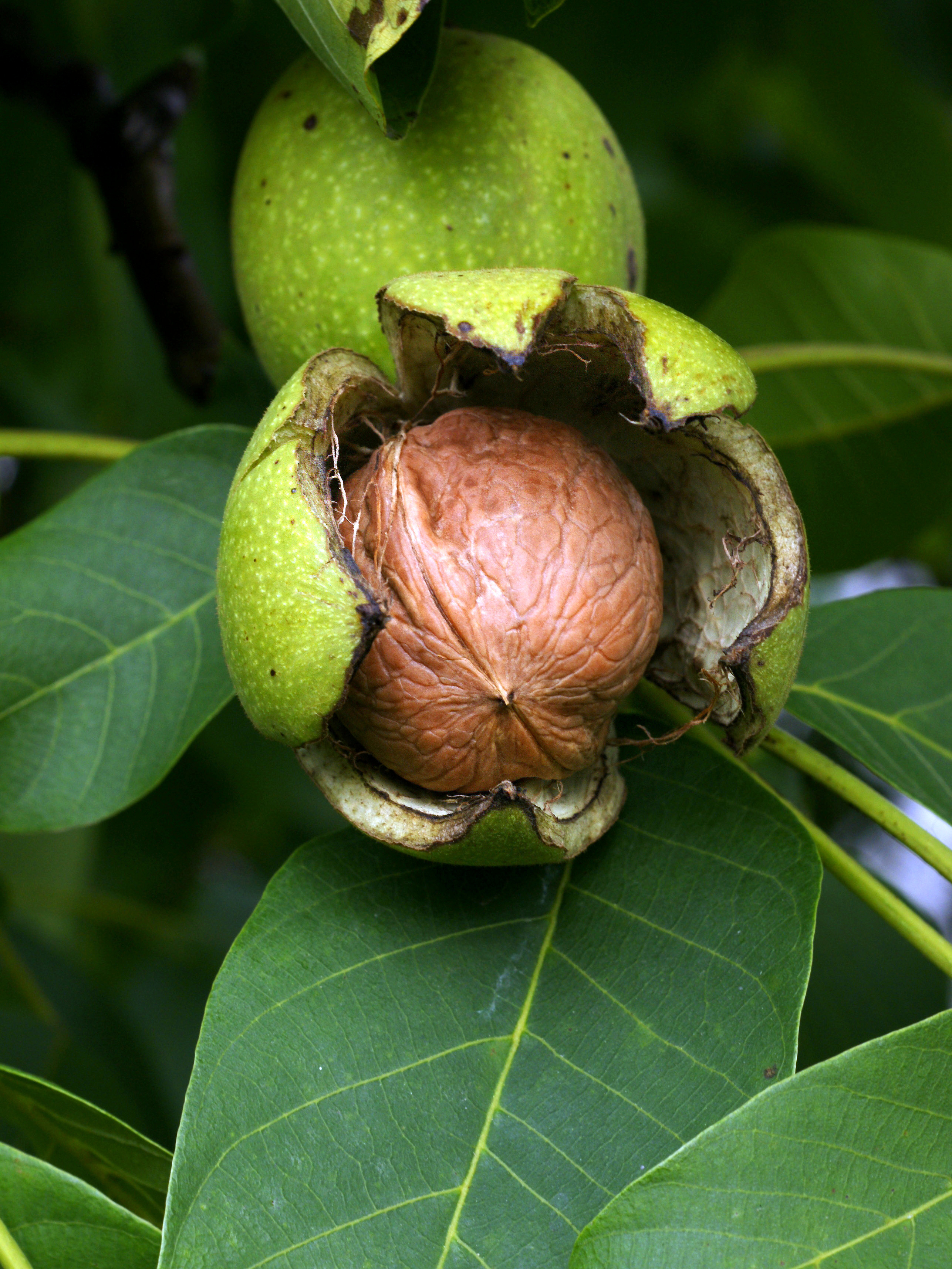 Juglans regia (the Common walnut or Persian walnut), is the original walnut tree of the Old World.